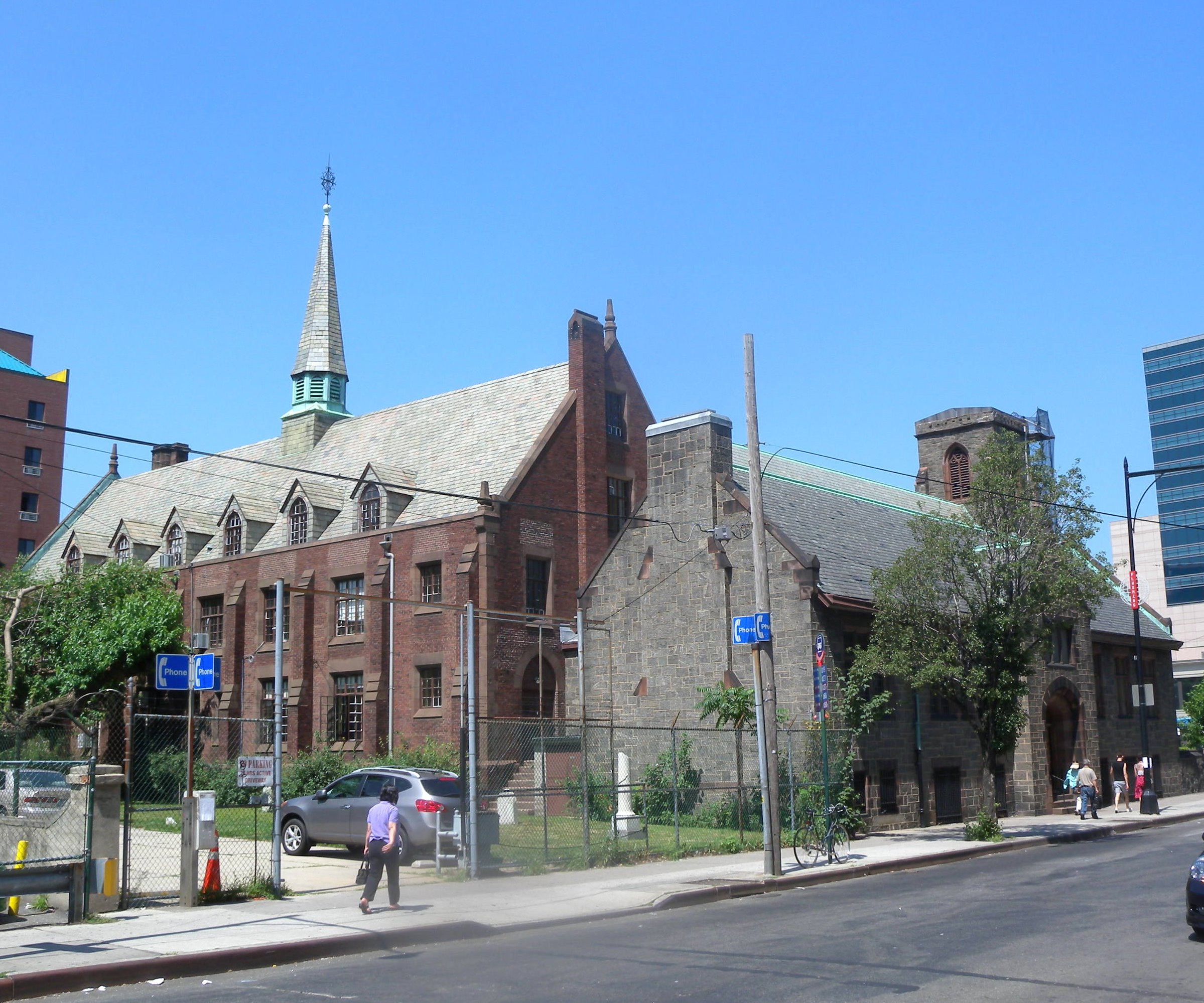 Looking northeast at Church of St George (right) and Parish House on a sunny midday before the fallen steeple was replaced.